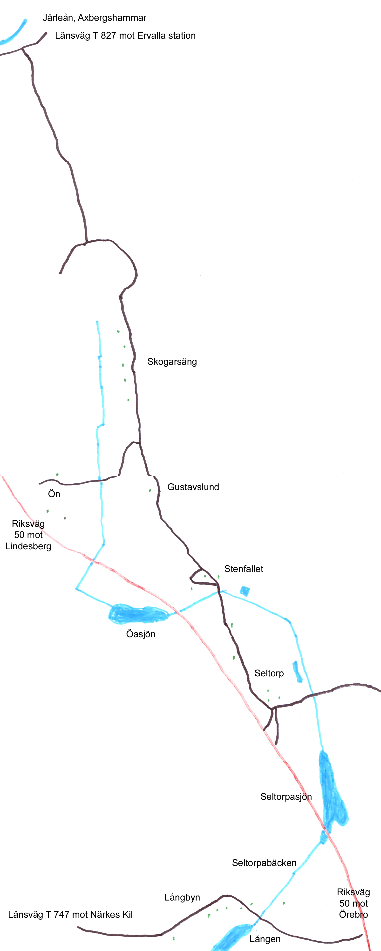 Sketch of "Axbergs grav", a canal project